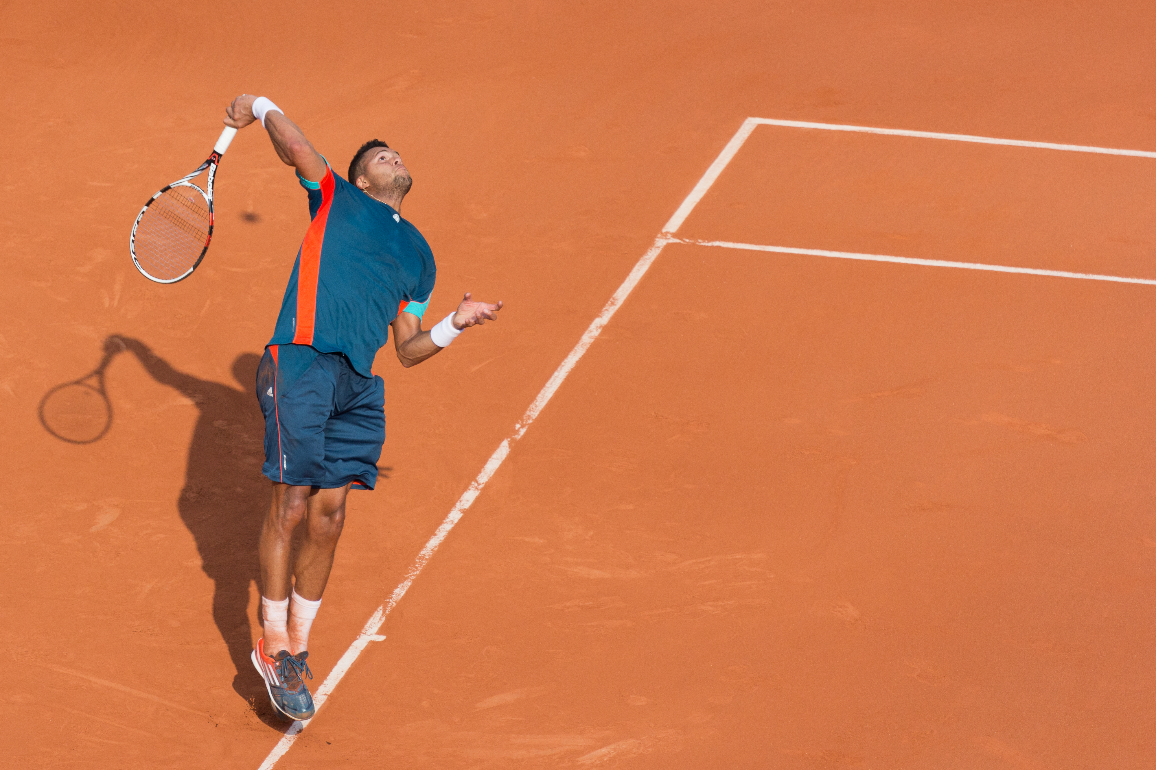 Jo-Wilfried Tsonga à Roland-Garros le 27 mai 2012, match contre Andrey Kuznetsov. Paris, France